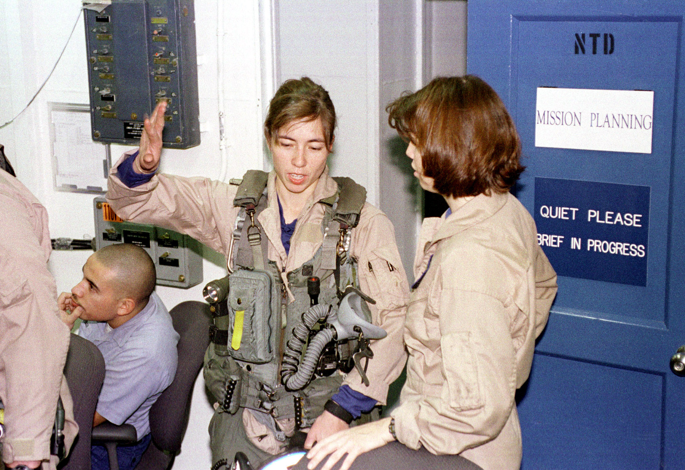 Lt. Carol Watts (center) flies with her hands as she discusses with Lt. Lyndsi Bates (right) her night-time strike against Iraq on Dec. 17, 1998, after returning on board the aircraft carrier USS Enterprise (CVN 65) during Operation Desert Fox. Watts is an F/A-18C Hornet pilot from Strike Fighter Squadron 37, Naval Air Station Cecil Field, Fla. Enterprise and its embarked Carrier Air Wing 3 are operating in the Persian Gulf in support of Operation Desert Fox.